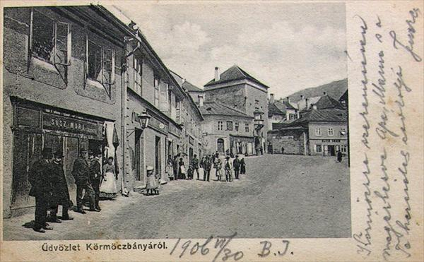 Kremnica-1906